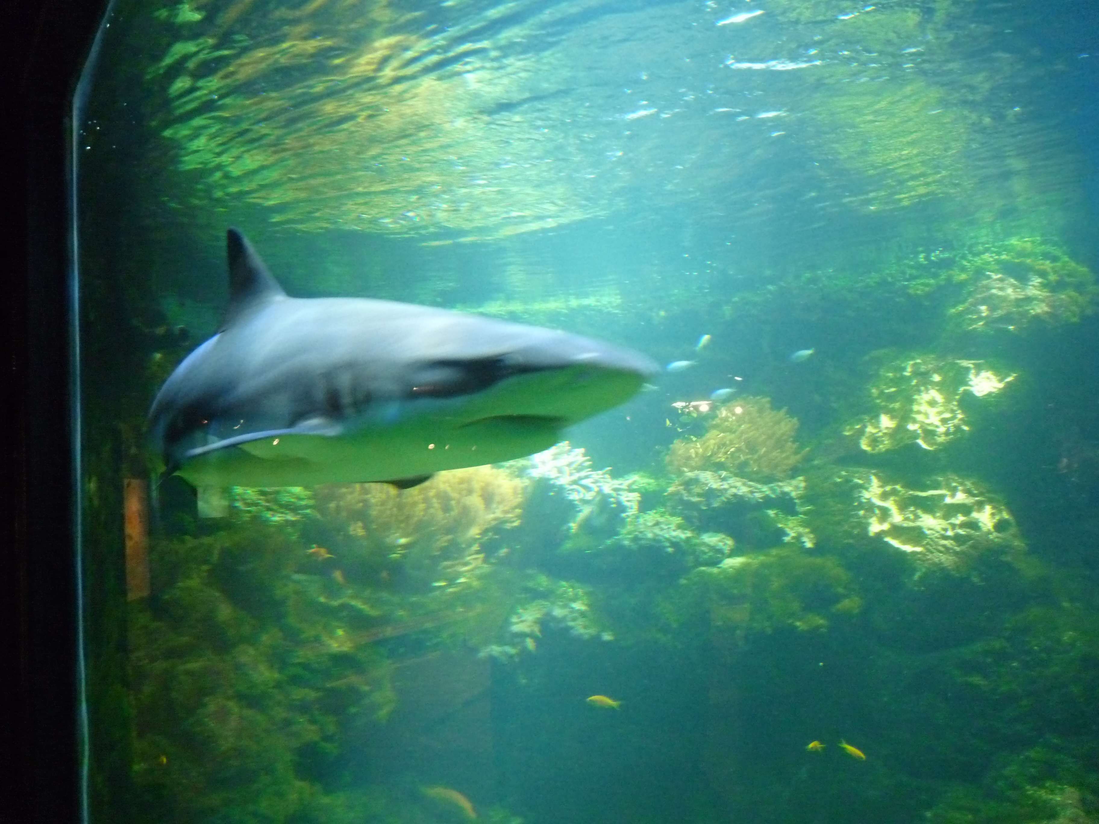 Aquaria